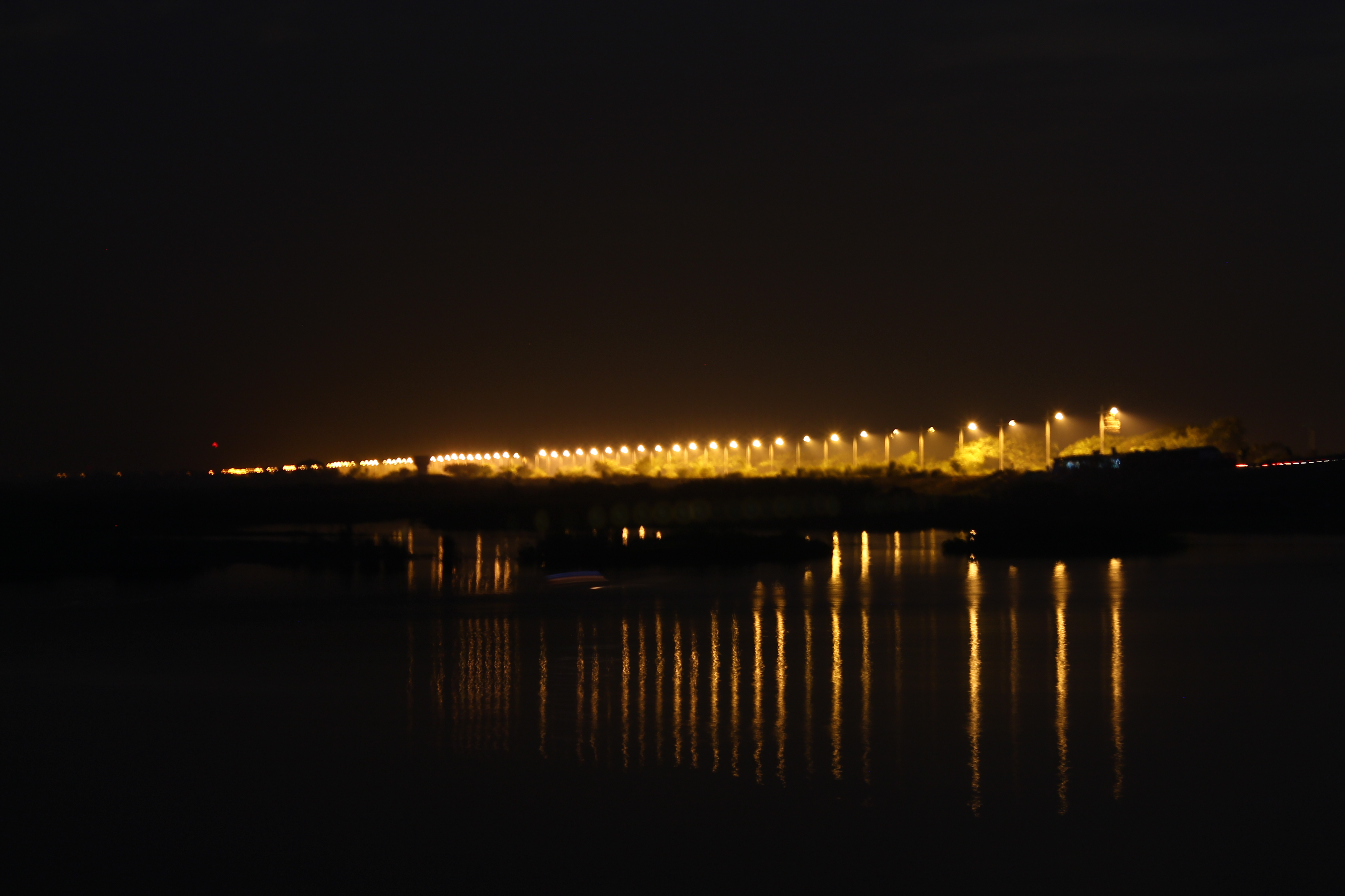 This is C-6 Road, Napindan, Taguig City at night.